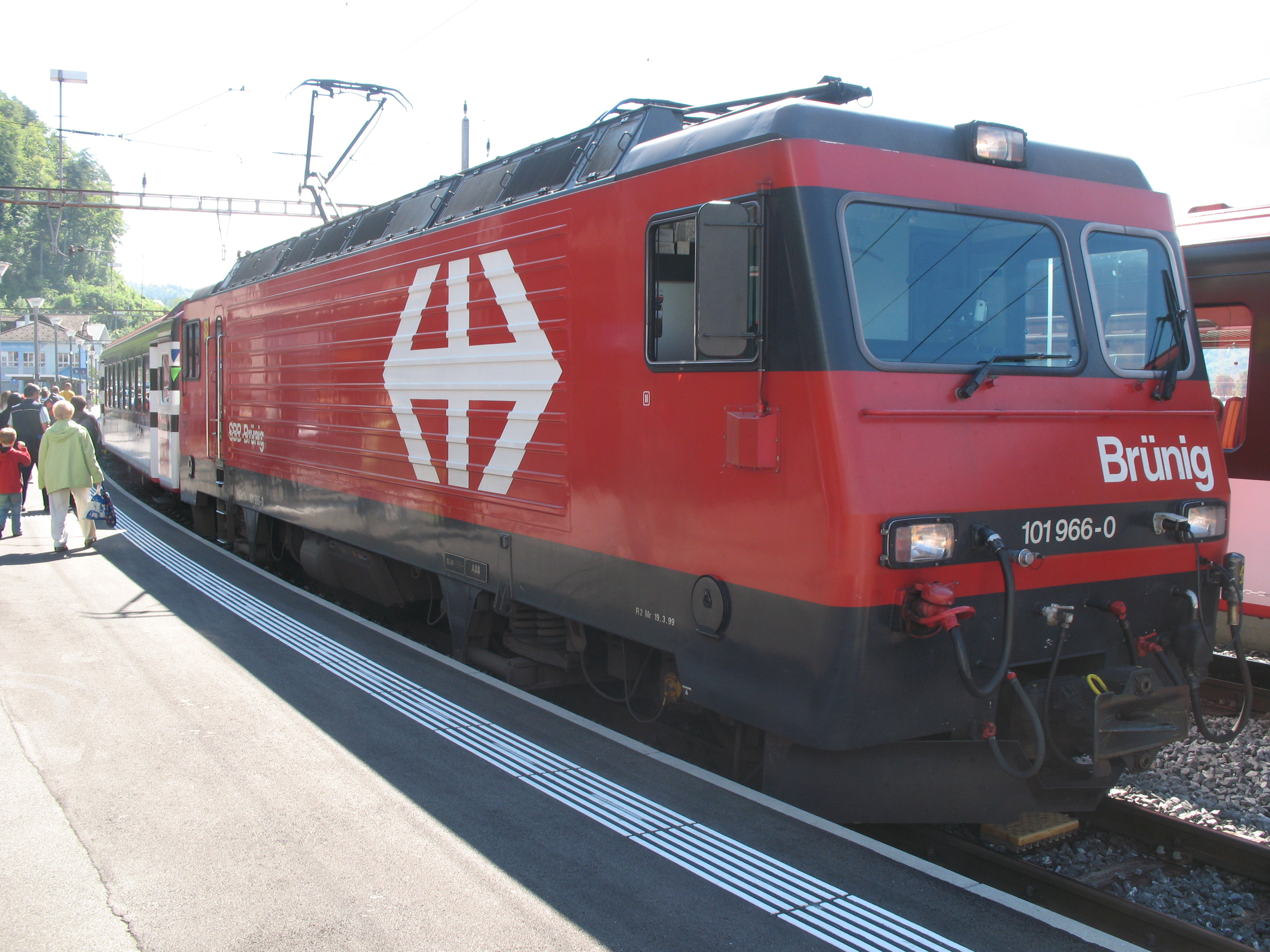 SBB-CFF-FFS Brünig Class HGe 4/4, Brienz, Switzerland